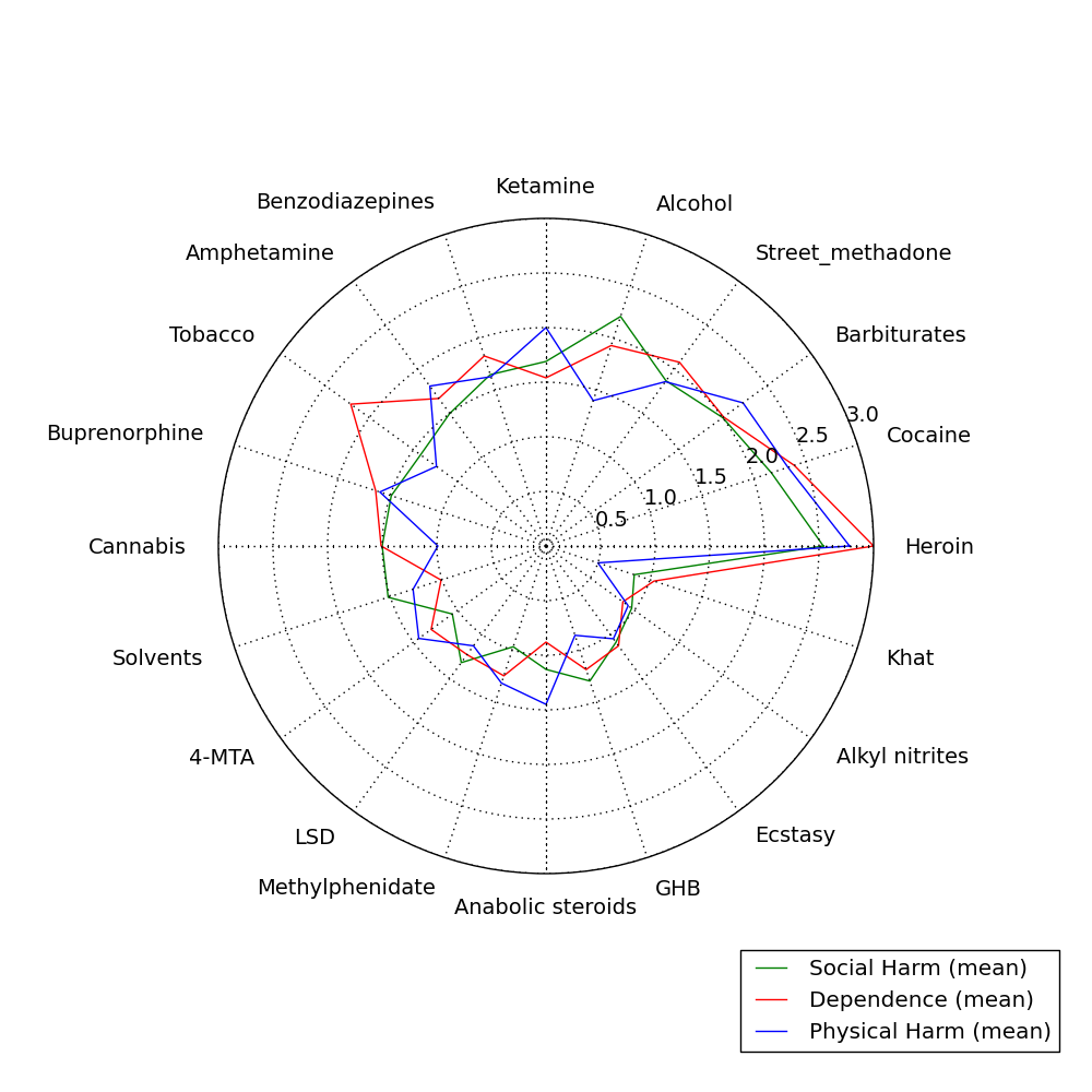 Radar plot depicting the data presented in Nutt, David, Leslie A King, William Saulsbury, Colin Blakemore. "Development of a rational scale to assess the harm of drugs of potential misuse" The Lancet 2007; 369:1047-1053. PMID:17382831. For more information, see image. It contains not only the physical harm and dependence data like the aforementioned image, but also the mean social harm of each drug. This image was produced with the python plotting library matplotlib.